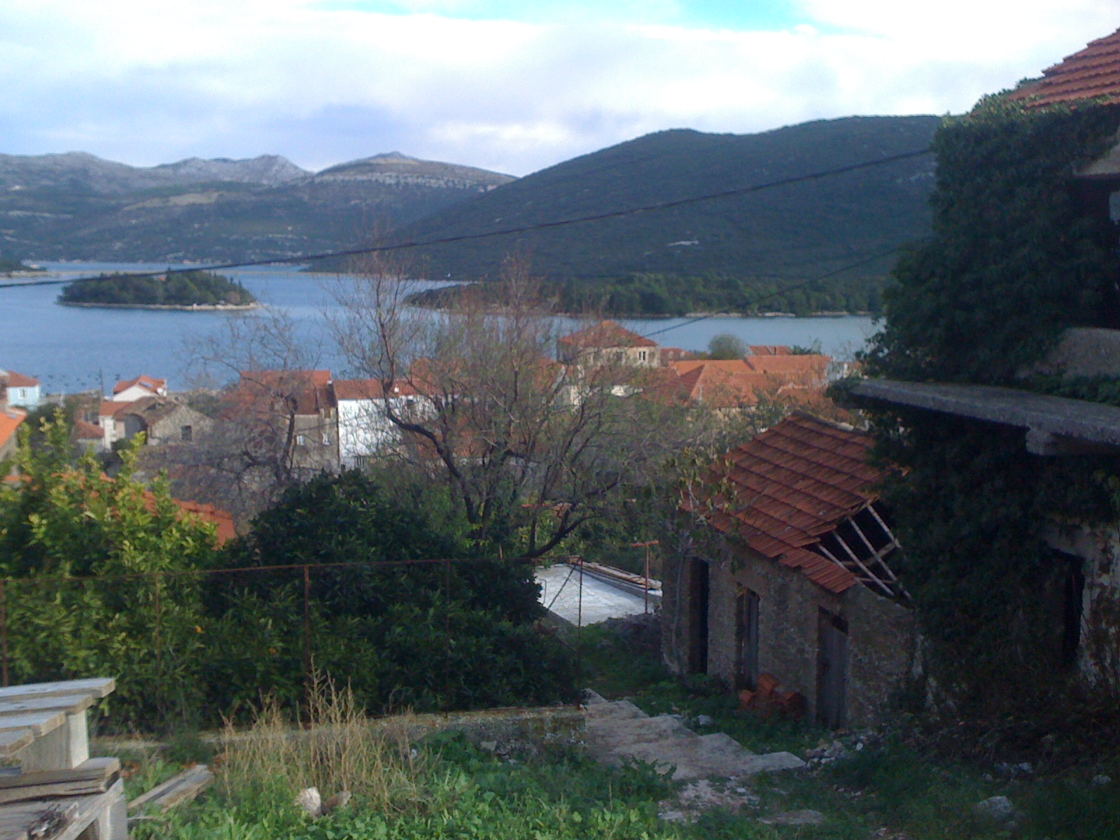 Hodilje